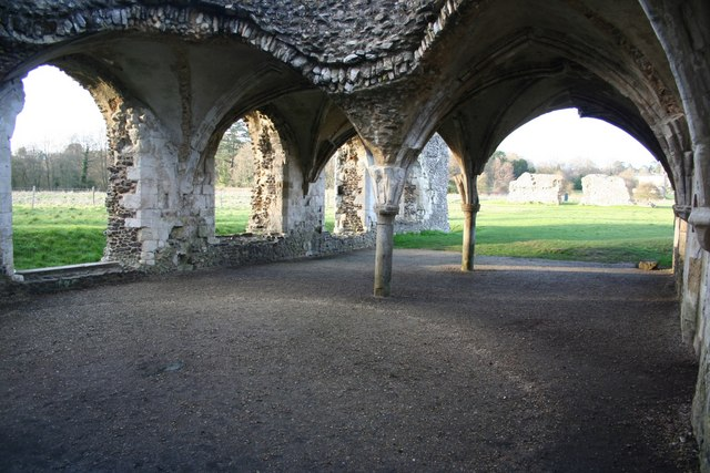 Waverley Abbey ruins